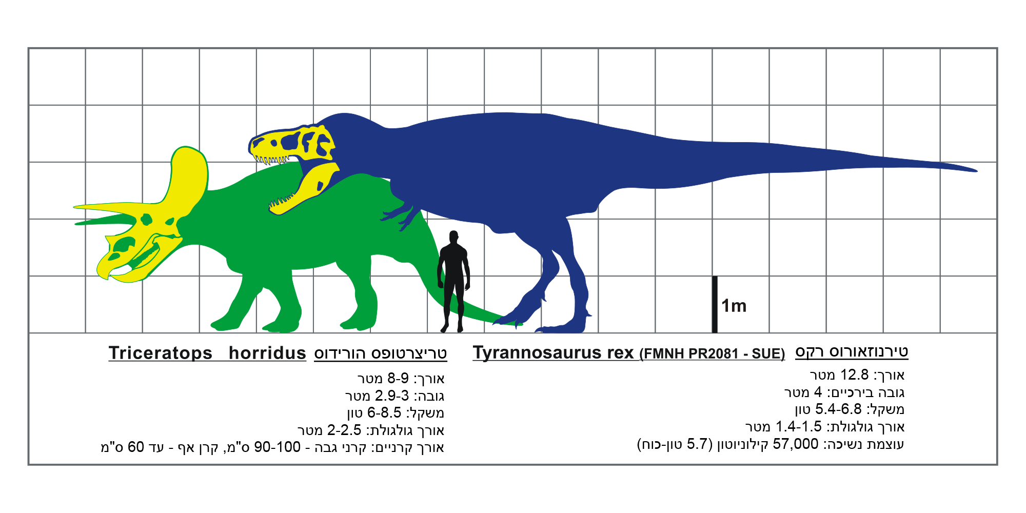 Tyrannosaurus and Triceratops